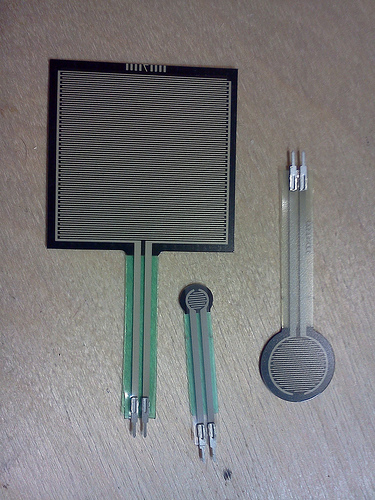 Jõutundlike takistite kujud ja suurused